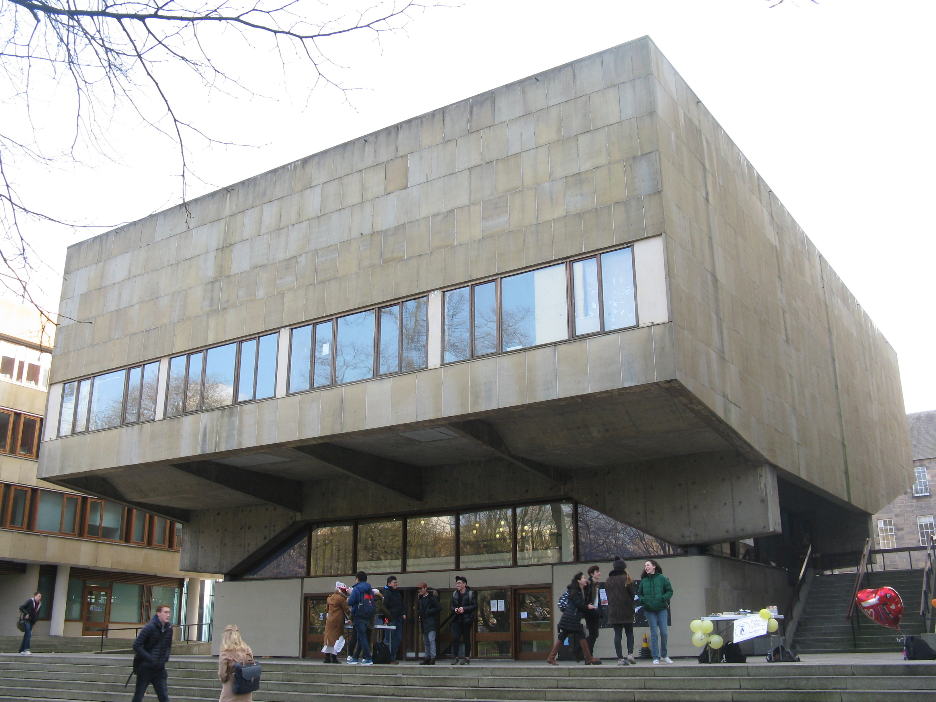 The George Square Lecture Theatre, located in Edinburgh.